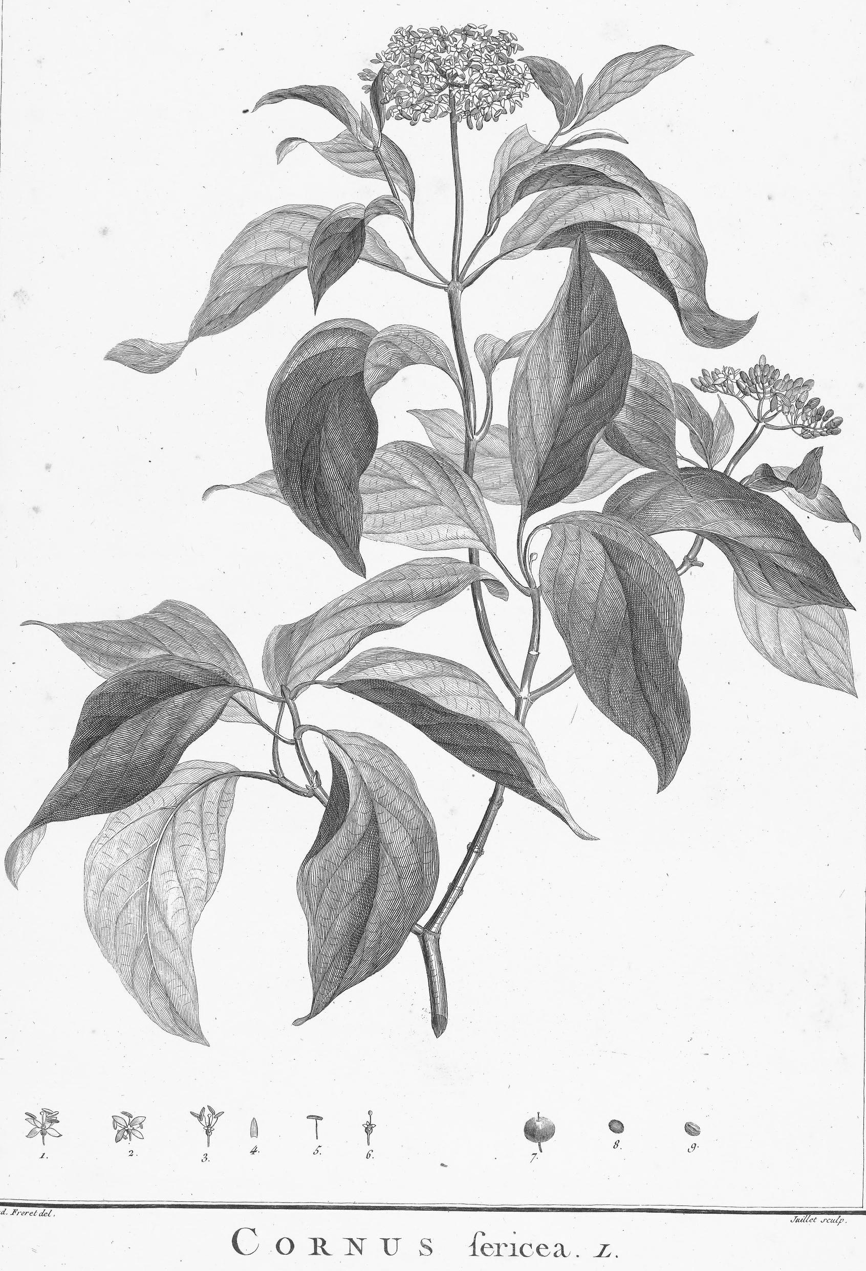 Plate from book